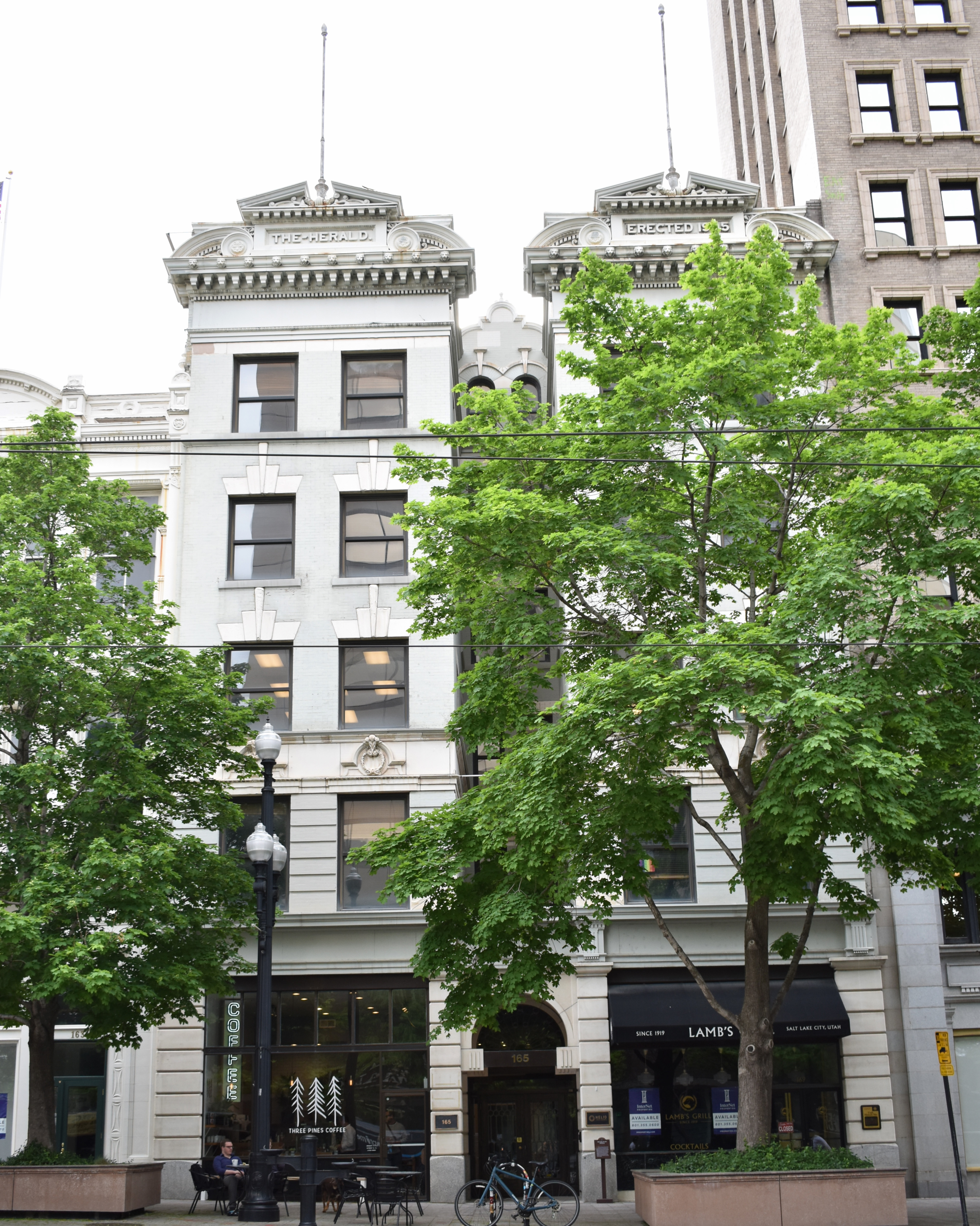 The Salt Lake Herald Building (1905) was designed by John C. Craig and is listed on the National Register of Historic Places.